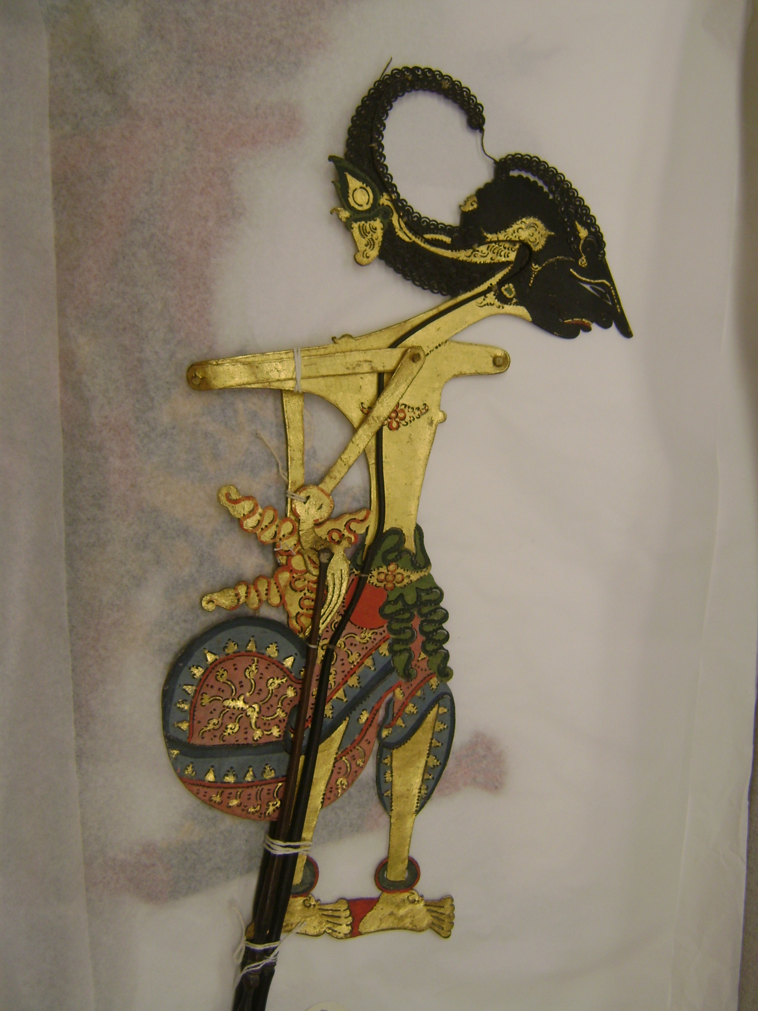 A wayang kulit shadow puppet from Simon Fraser University Museum of Archaeology and Ethnology